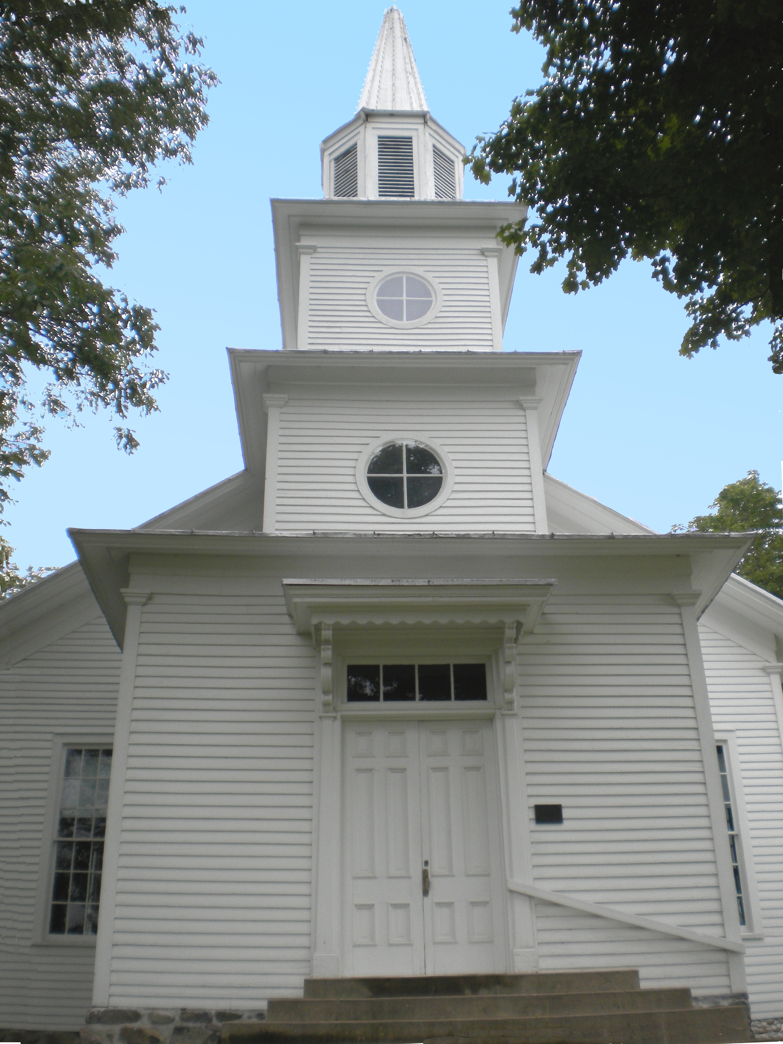 The front of the Powers Church, Steuben County, Indiana, USA, on the National Register of Historic Sites.